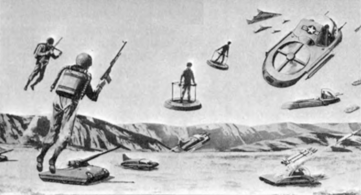 Army air mobility futuristic concept 1965